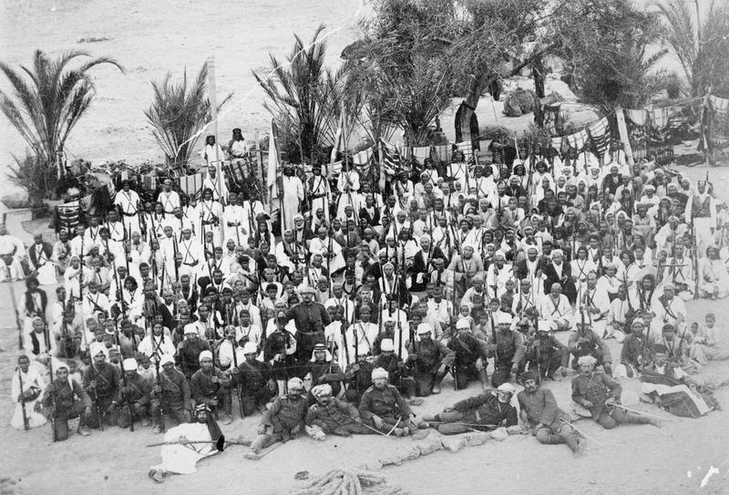 T E Lawrence and the Arab Revolt 1916 - 1918 A scene (probably a set piece for cinema representation), showing a crowd of soldiers, both local and Indian, at Wejh, a port on the Red Sea coast north of Yenbo.